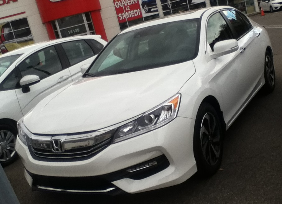 2016 Honda Accord photographed in Montreal, Quebec, Canada.